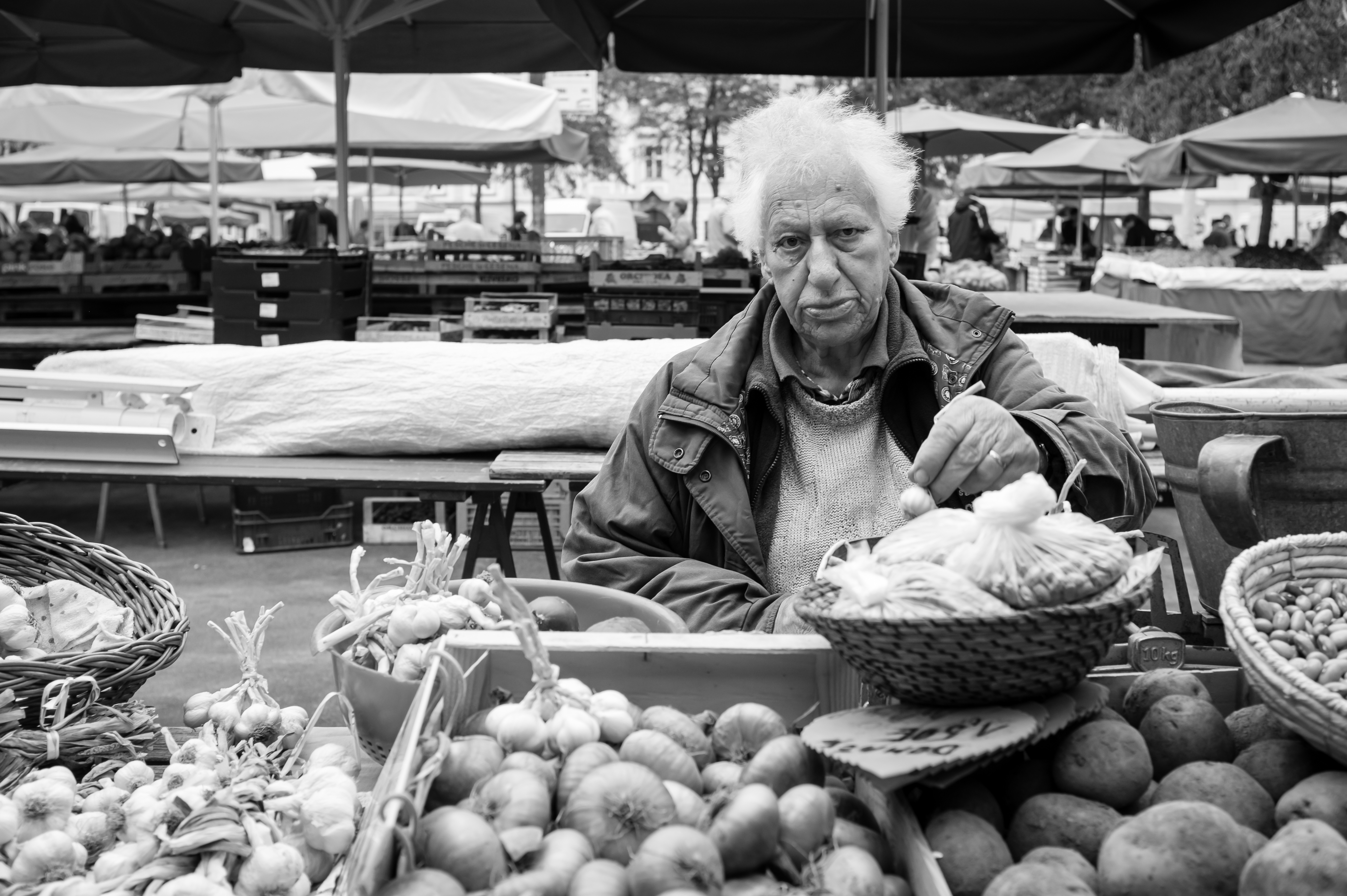 Garlic man